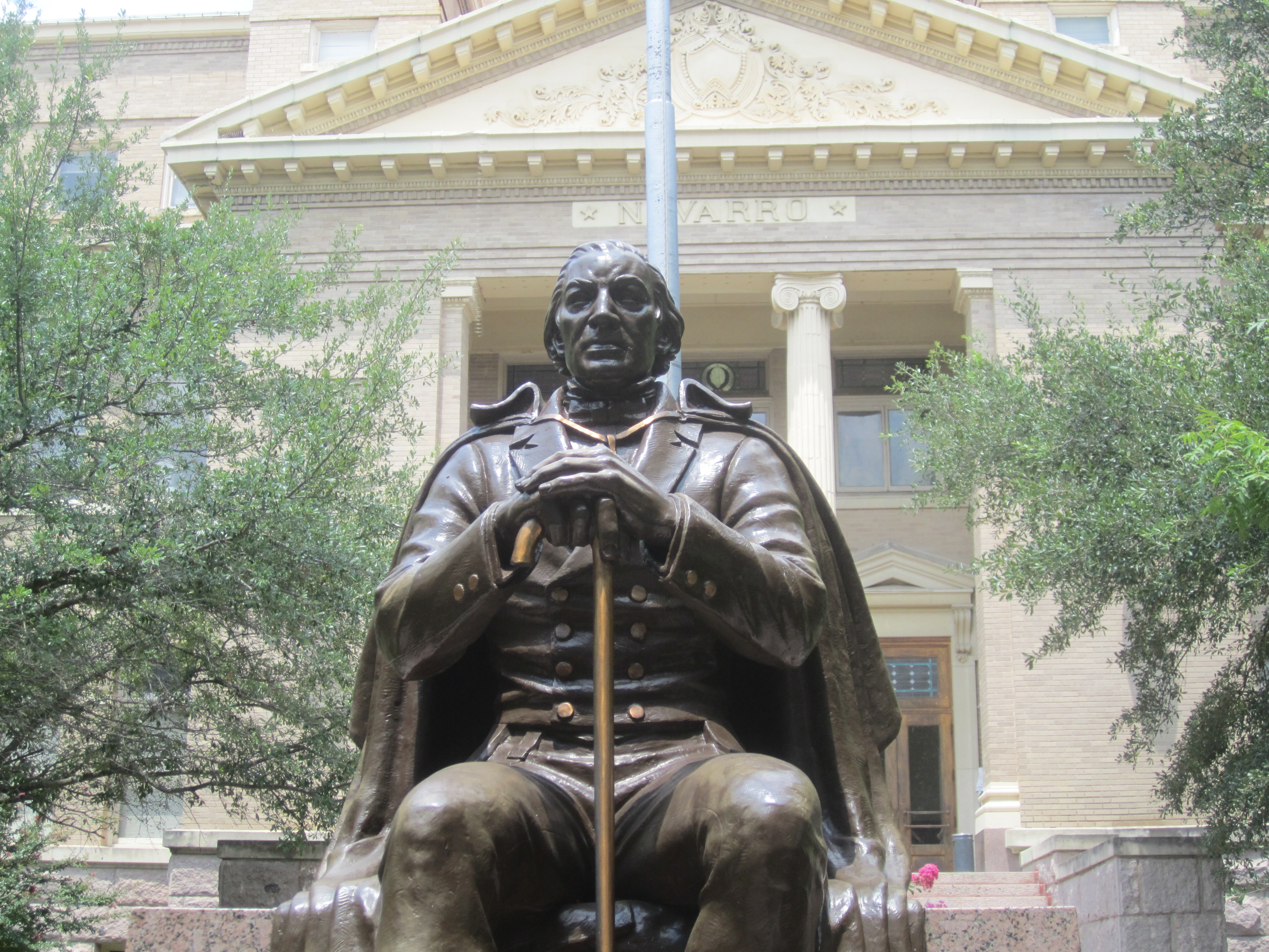 Memorial to José Antonio Navarro (1937) at south entrance of Navarro County Courthouse grounds in Corsicana, Texas, United States. I took photo with Canon camera in Corsicana, TX. Allie Tennant sculpted the statue for the Texas Centennial.